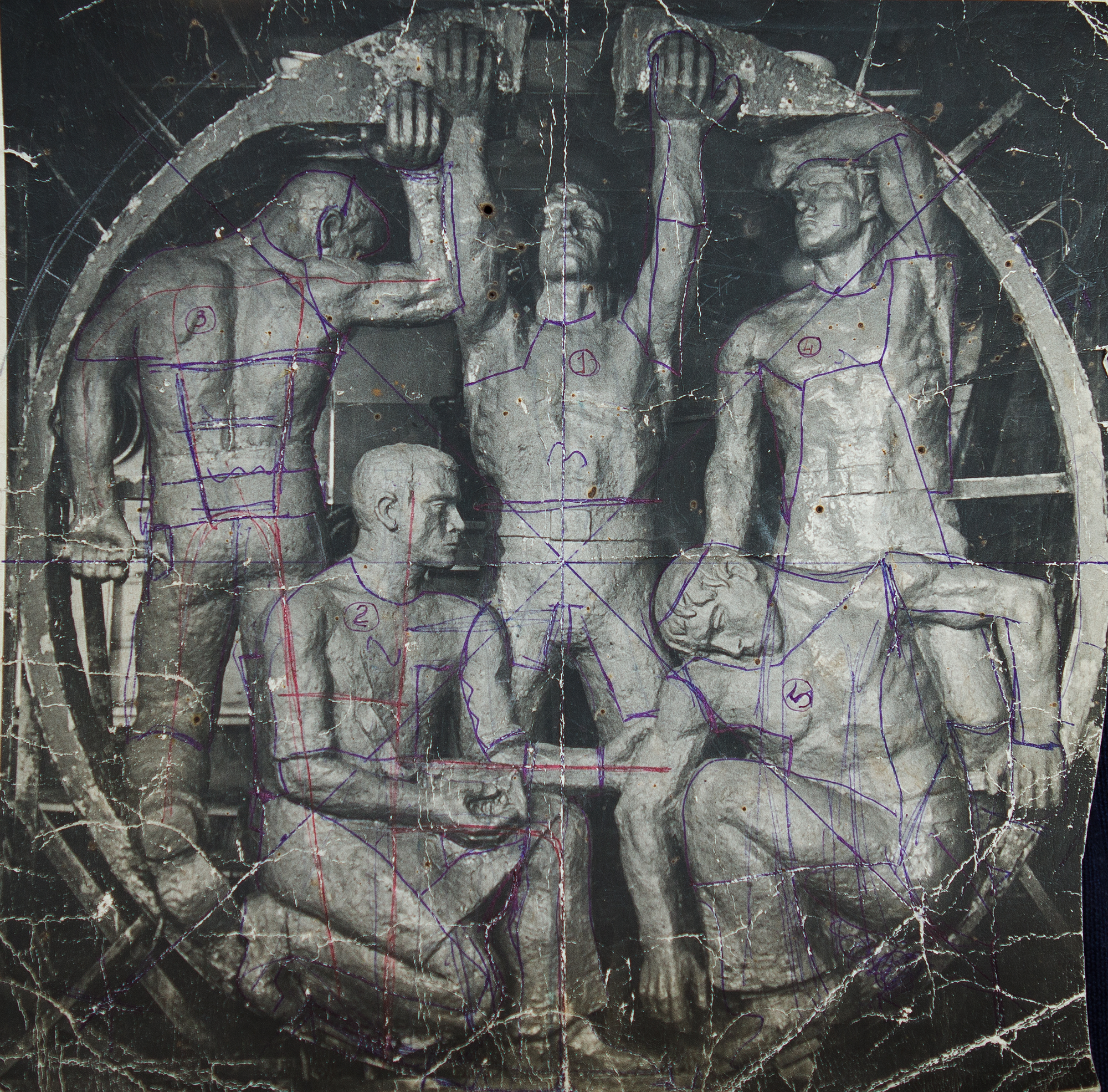 The Crew of Submarine K-8 Monument. Studio full-scale clay model. Note the pen outline of seams made by artists.